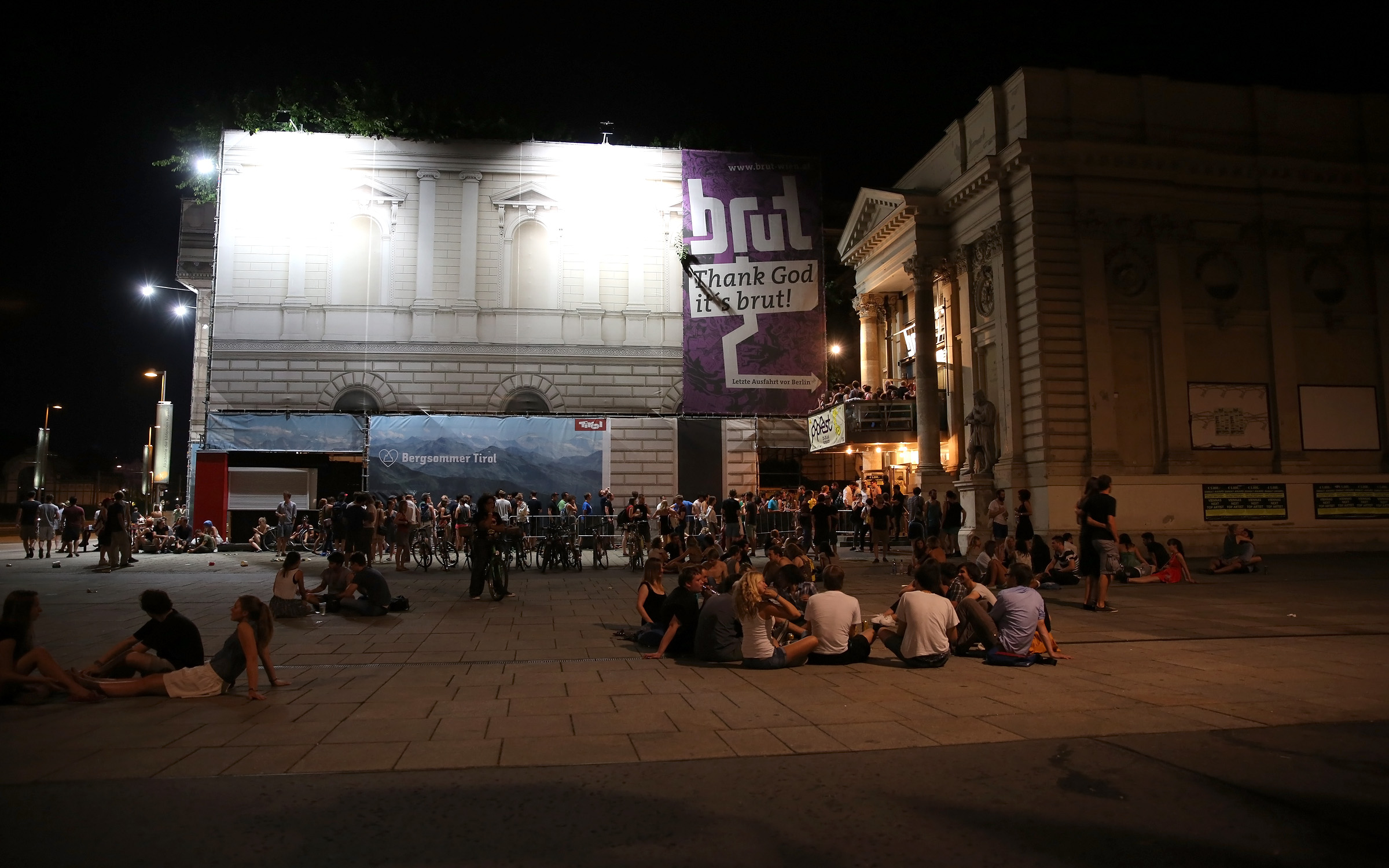 Popfest 2013 at brut im Künstlerhaus in Vienna, Austria.